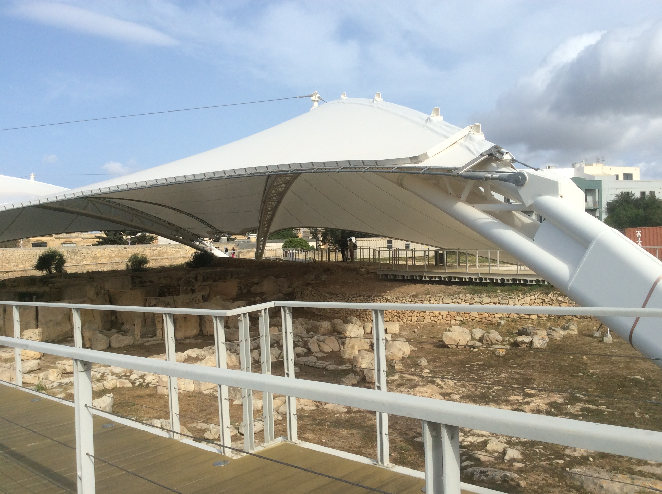 Hal Taxien Temple and protection tent